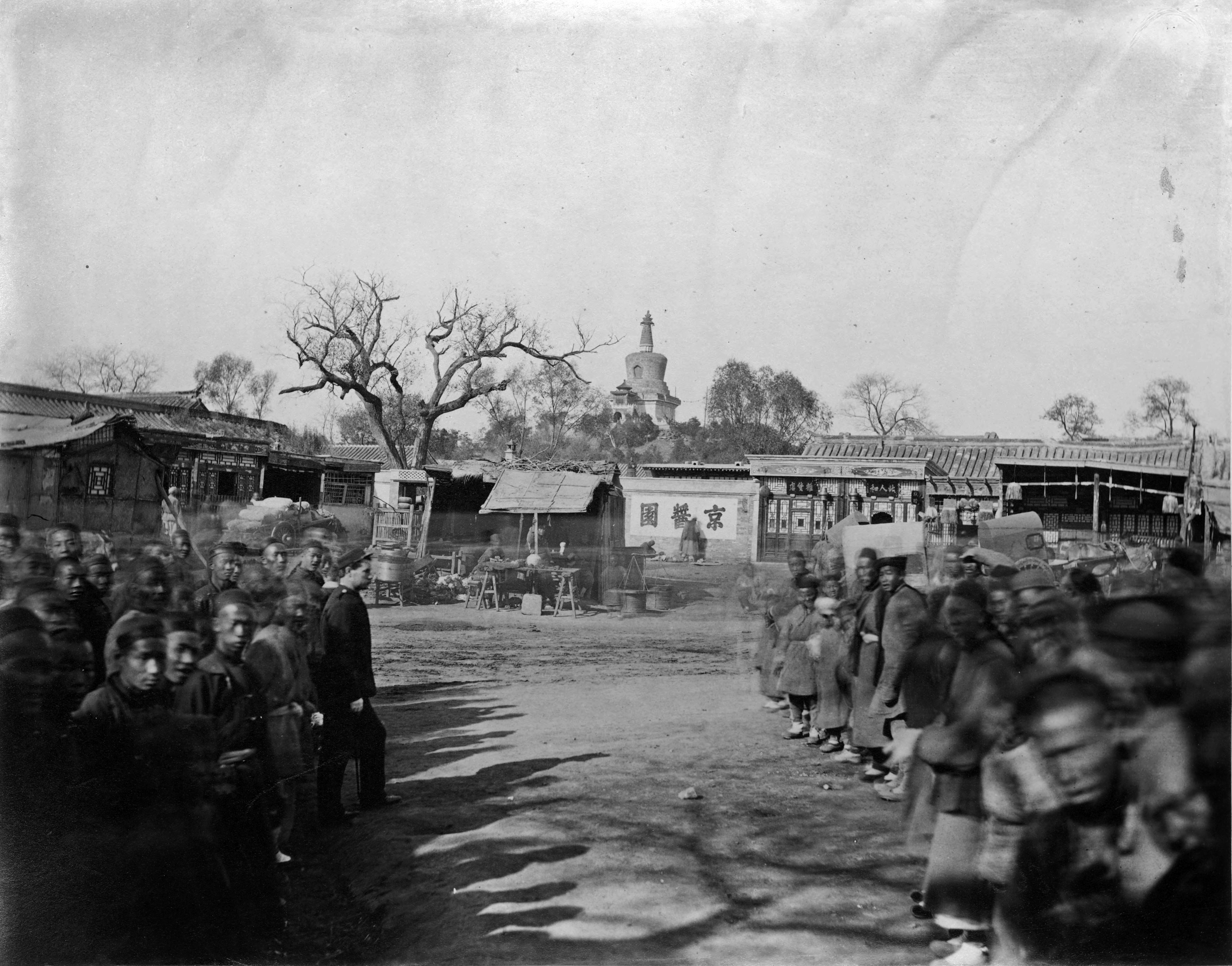 Photograph in Album of photographs of Peking and its environs.